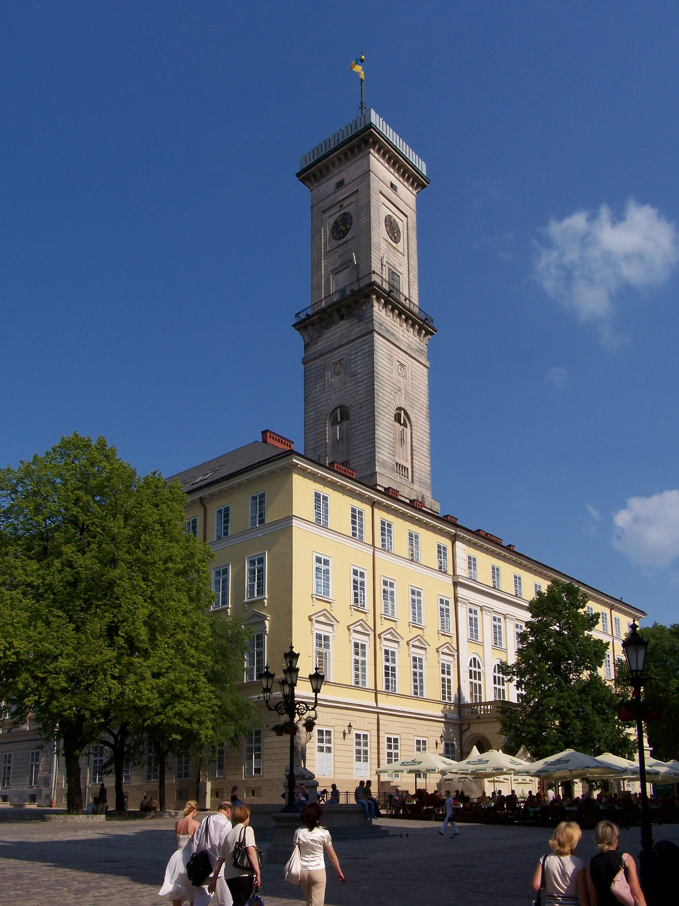 Town hall in Lviv (Ukraine).